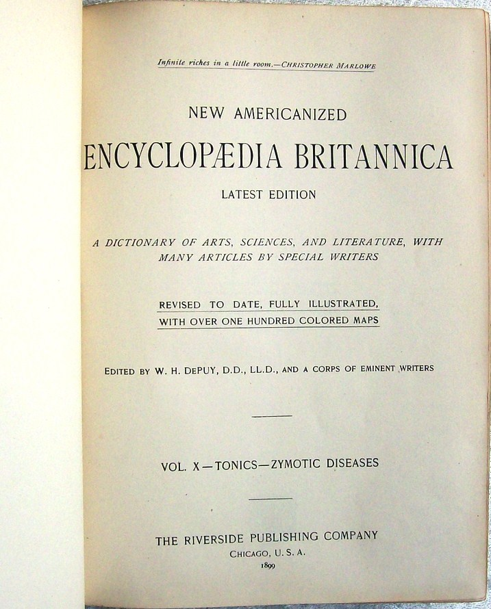 Title page of the Americanized Encyclopedia Britannica